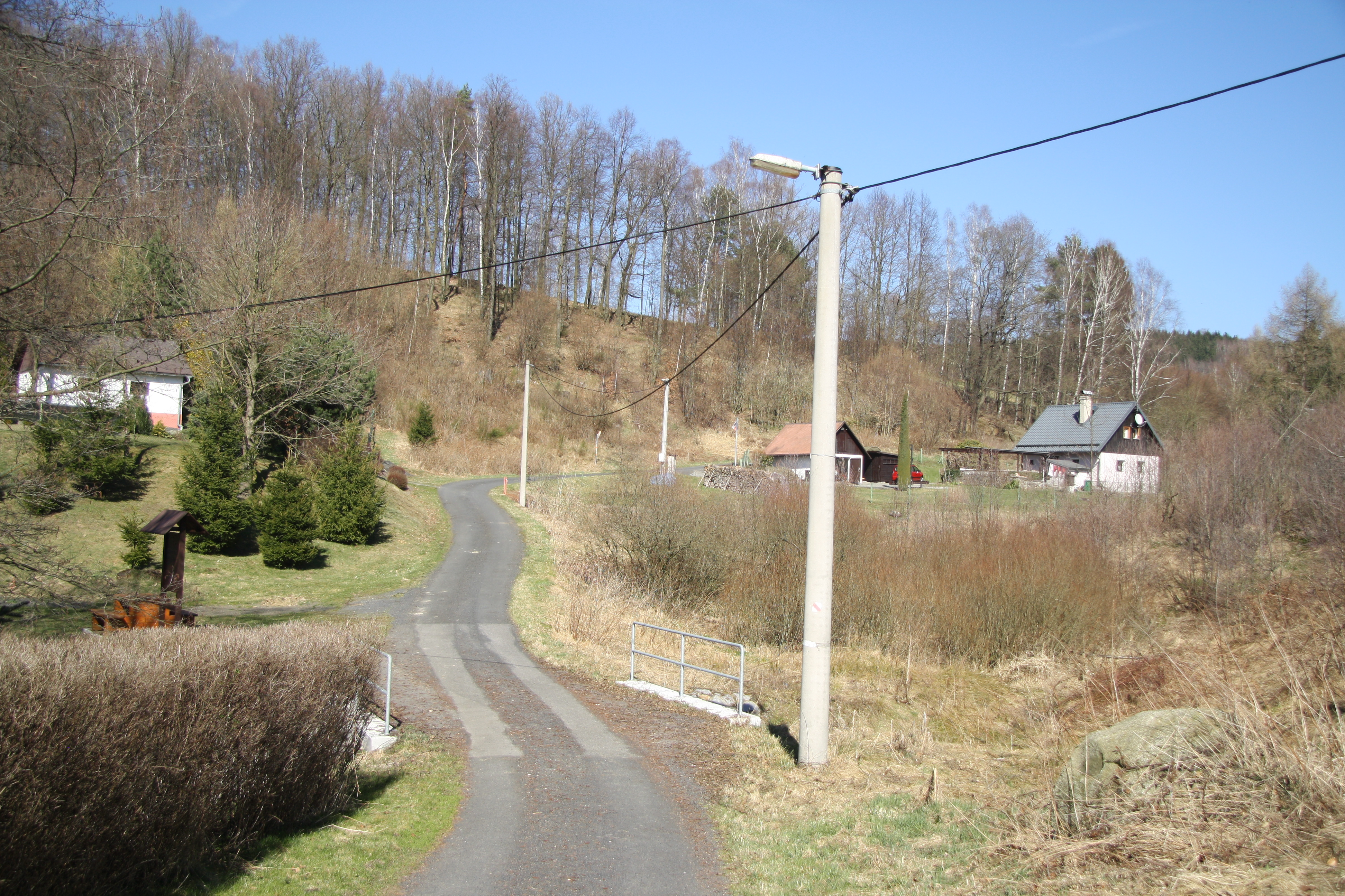 Center of Královka, Šluknov, Děčín District.